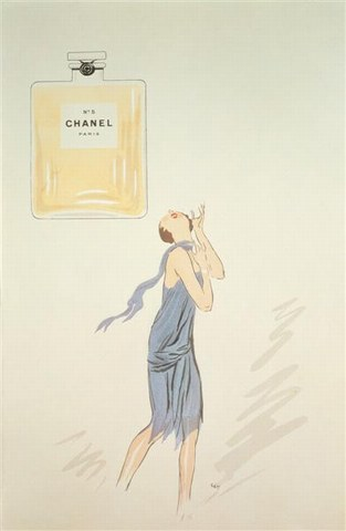 French illustration by Sem (Georges Goursat), erroneously considered the first advertisement of Chanel No. 5 perfume